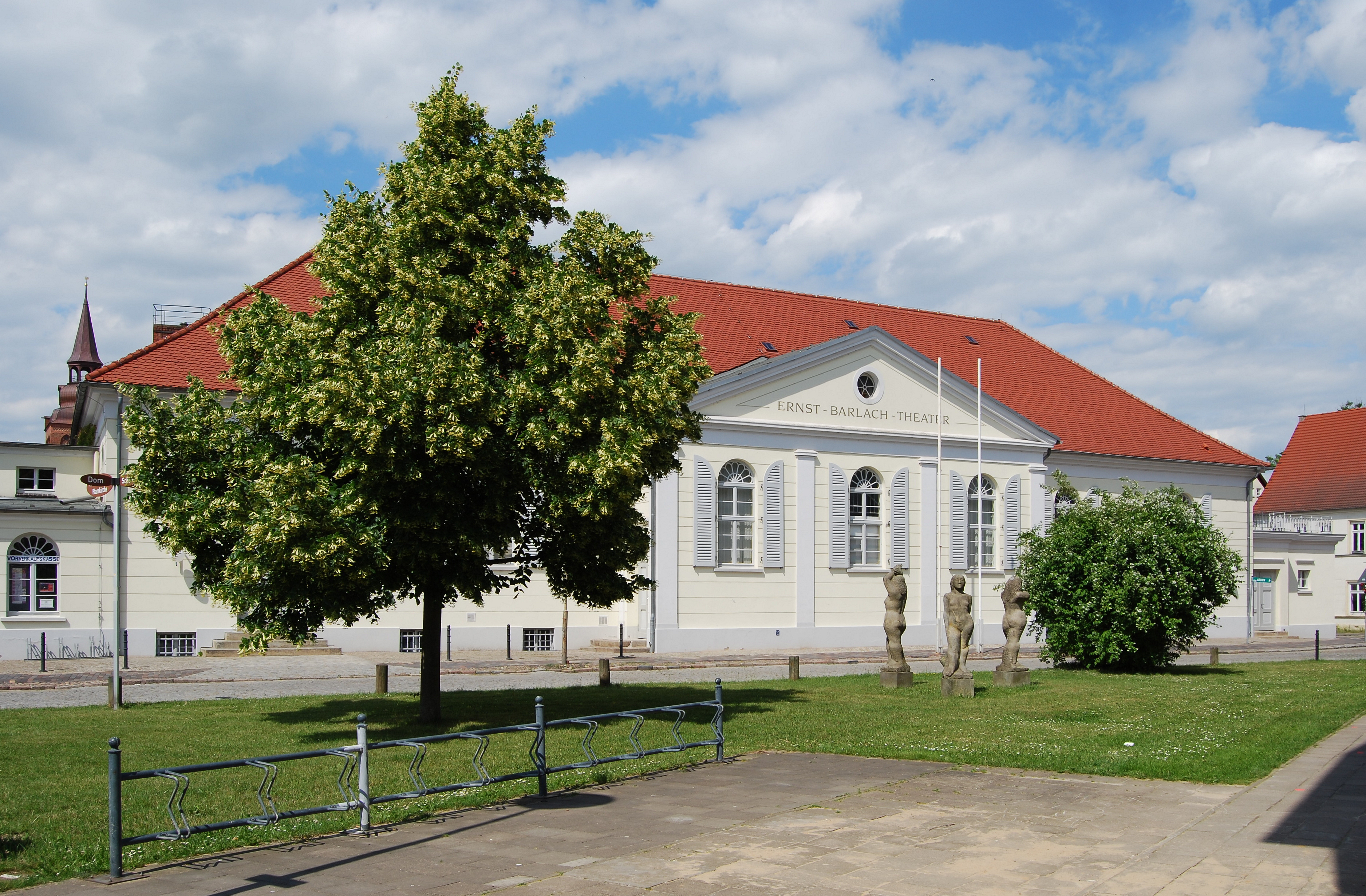 Ernst Barlach theatre in the city of Güstrow, Mecklenburg-Vorpommern.